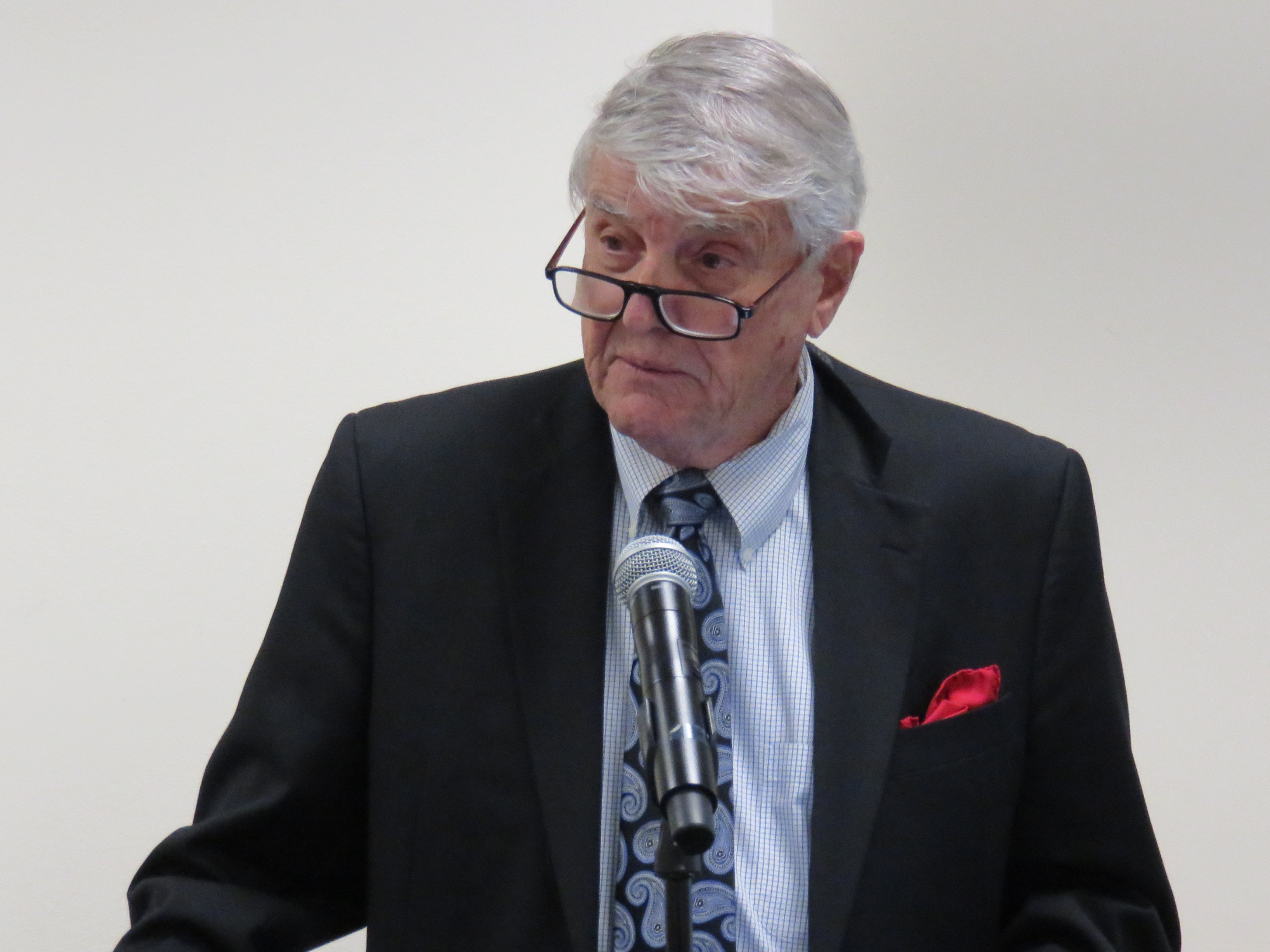 Edwin W. Martin, Jr., appointed the first Assistant Secretary of Education for Special Education and Rehabilitative Services by President Carter, participating in a panel discussion of PARC v. Commonwealth of Pennsylvania, at the TASH symposium in honor of Tom Gilhool, George Washington University, Marvin Center, Washington, D.C., 14 June 2017